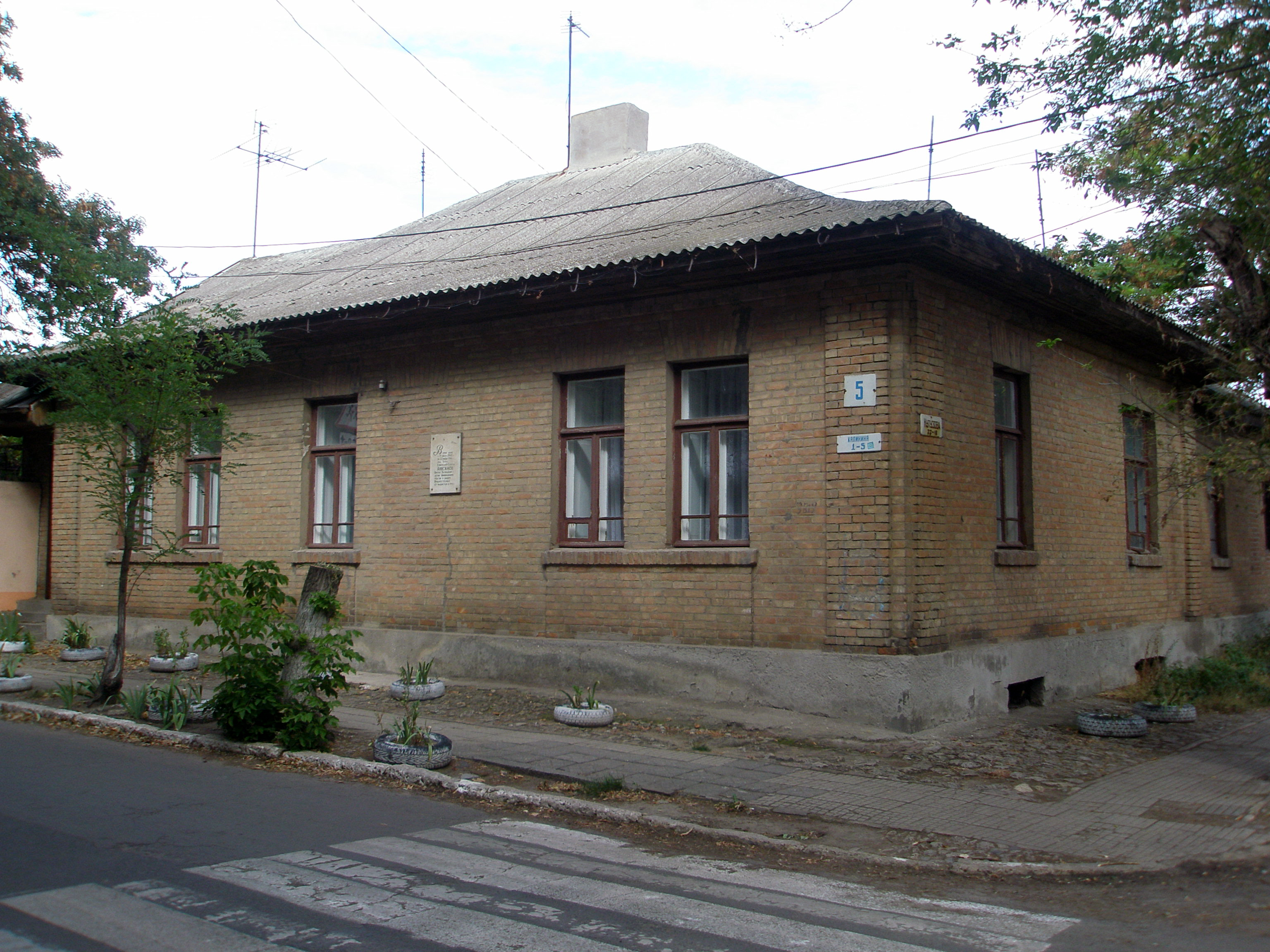 The house in which Viktor Anisimov, the Hero of the Soviet Union, lived, Bilhorod-Dnistrovskyi, 5 Kalinina Street